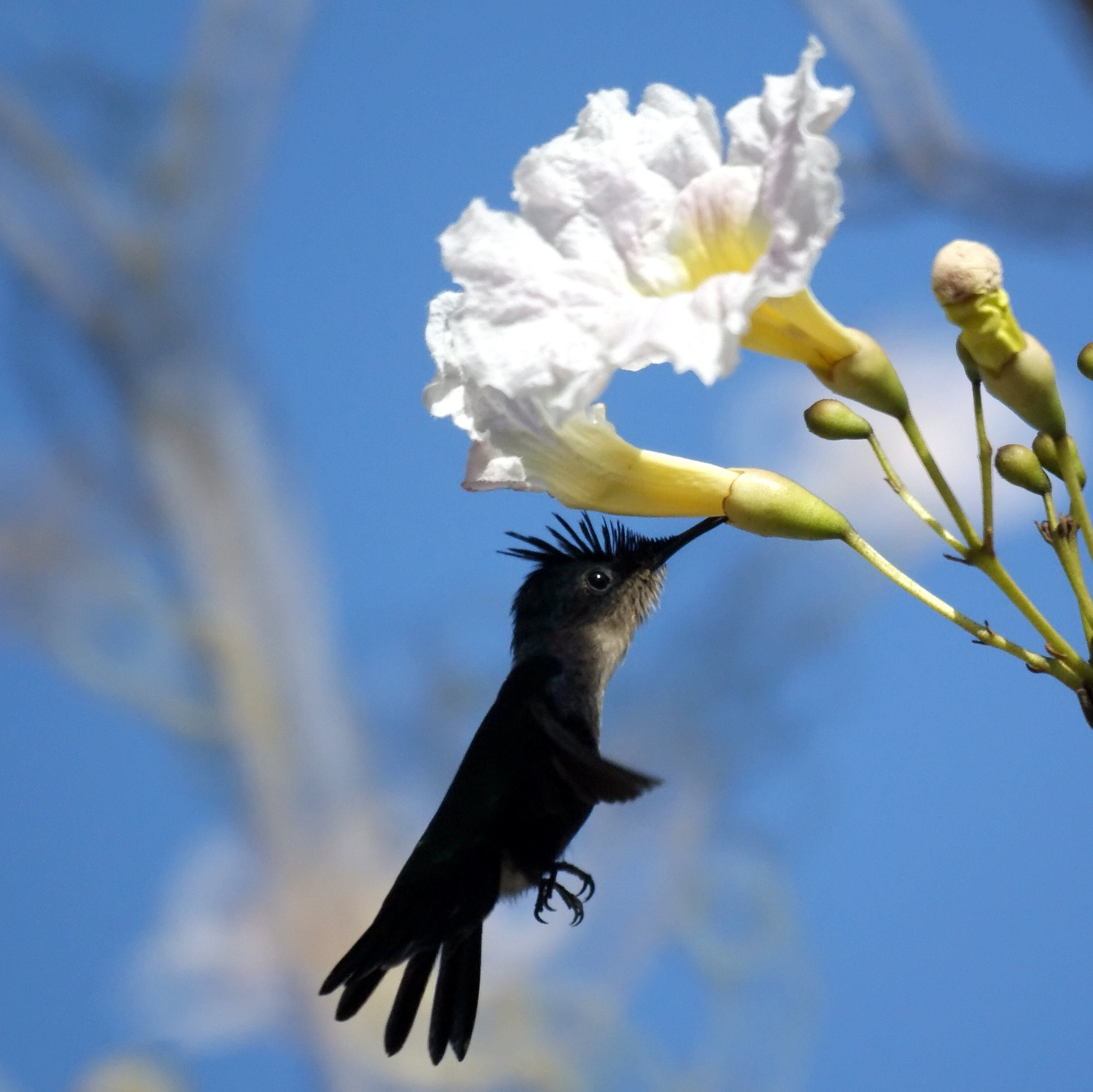 Orthorhyncus cristatus Antillean Crested Hummingbird